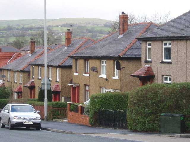 Bradley - semis